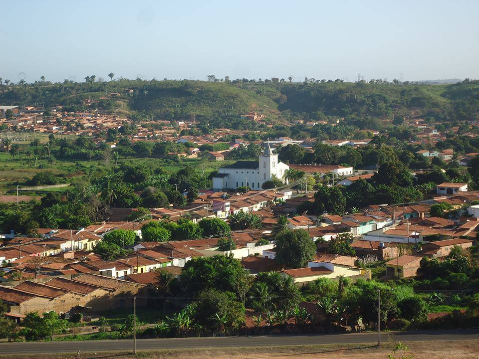 Vista de Dom Pedro - MA